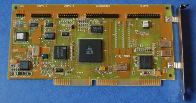 An MFM disk controller, an example of a 16-bit ISA / AT-bus card